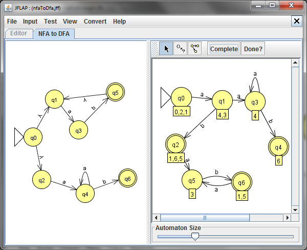 JFLAP 7.0 example of converting a nondeterministic finite automaton (on the left) to a deterministic finite automaton (on the right)